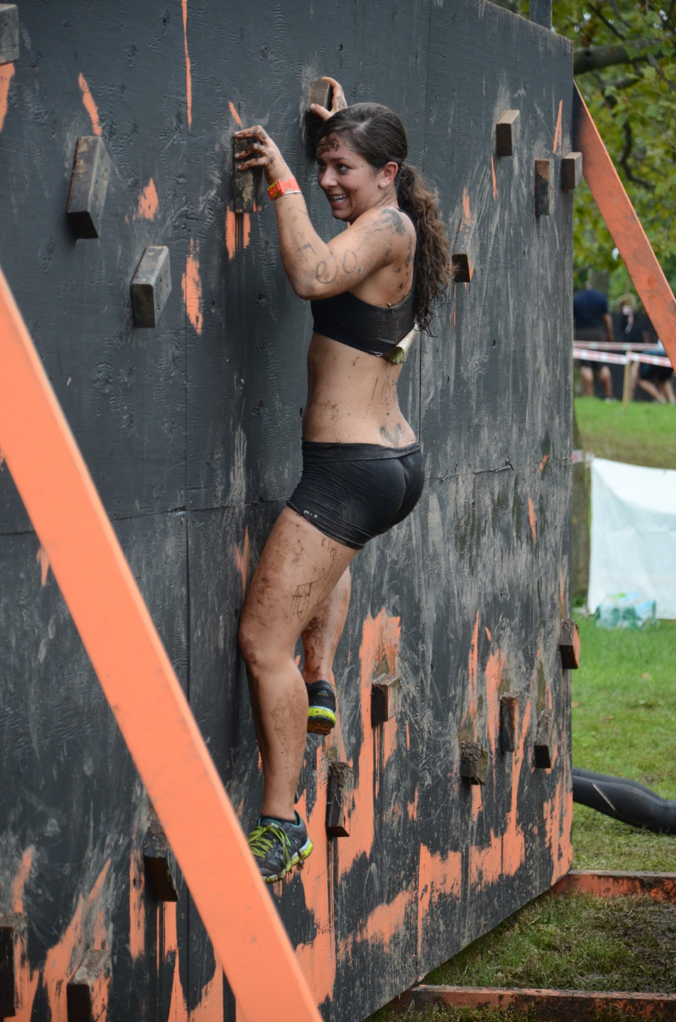 Girl Climbing a Wall - Super Spartan Race - Wolfe's Pond Park - Staten Island - 24 Sept. 2011